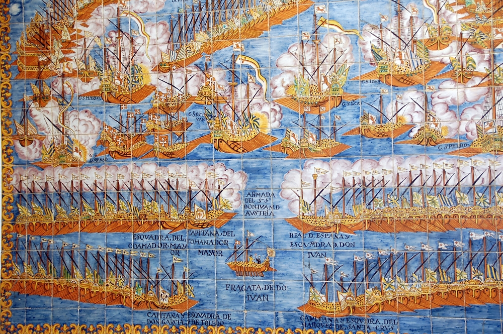 Museu Maritim, Barcelona, Spain